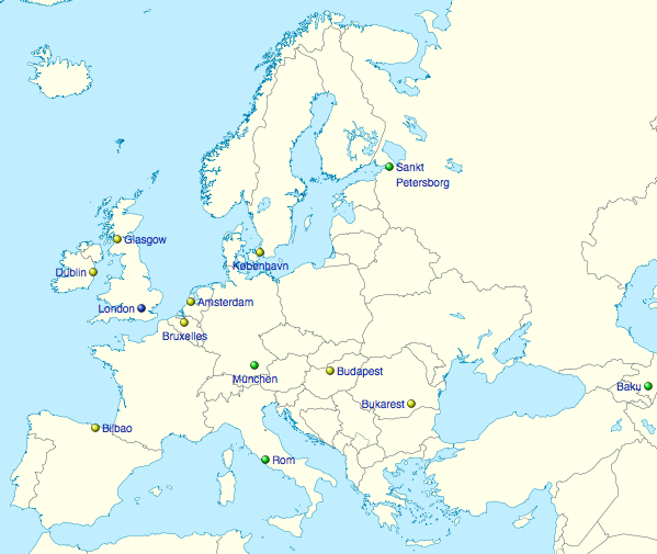 Danish map of UEFA 2020 hosts. Screendump of edited English wikipedia article.